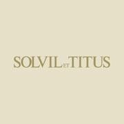 Solvil et Titus is a formerly Swiss now Hong Kong-based watch company